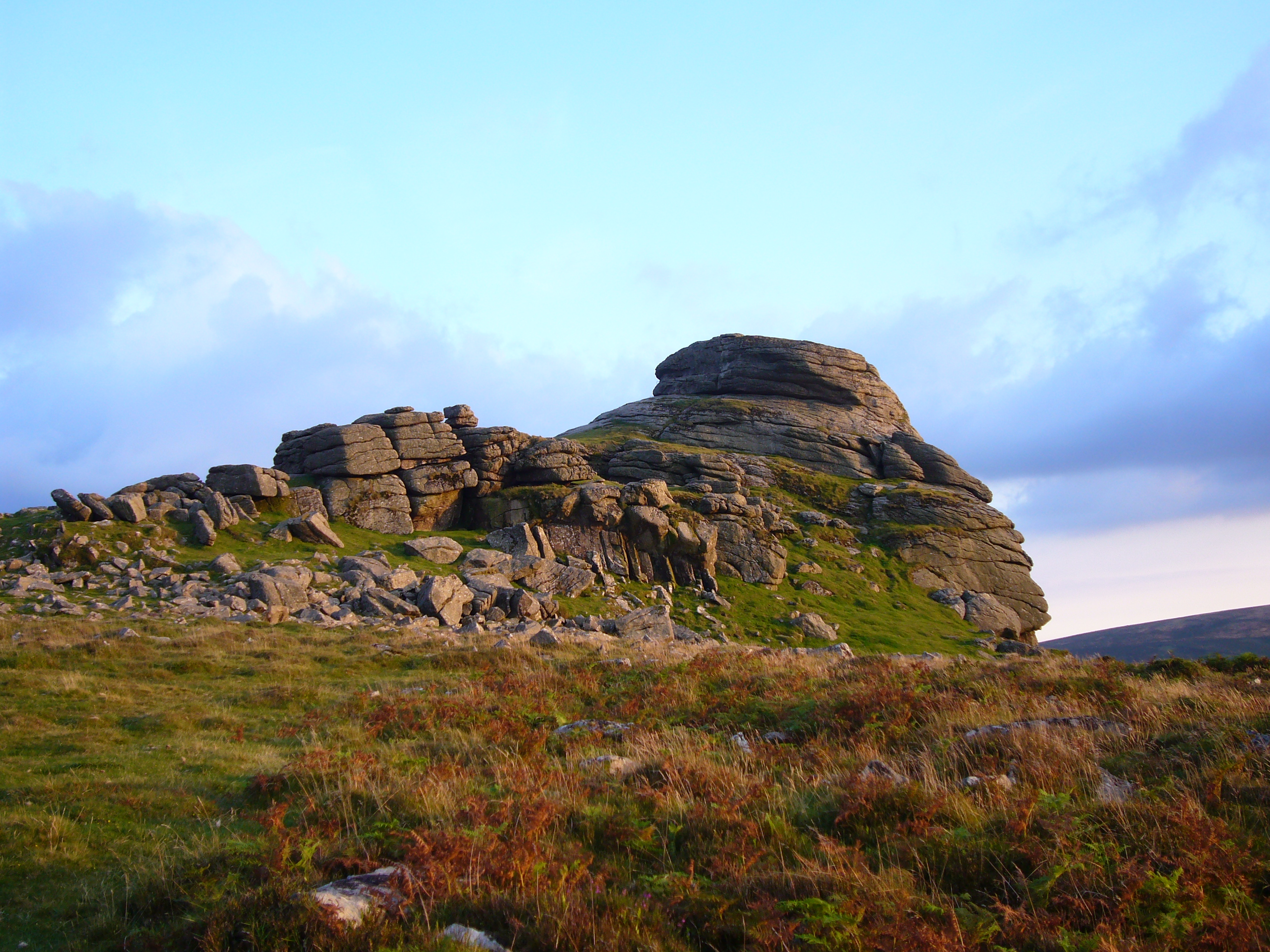 Haytor main buttress - evening light (Dartmoor)